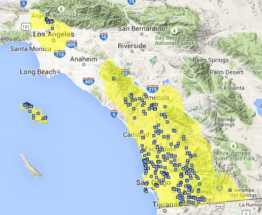 Natural Distribution of Mission Manzanita